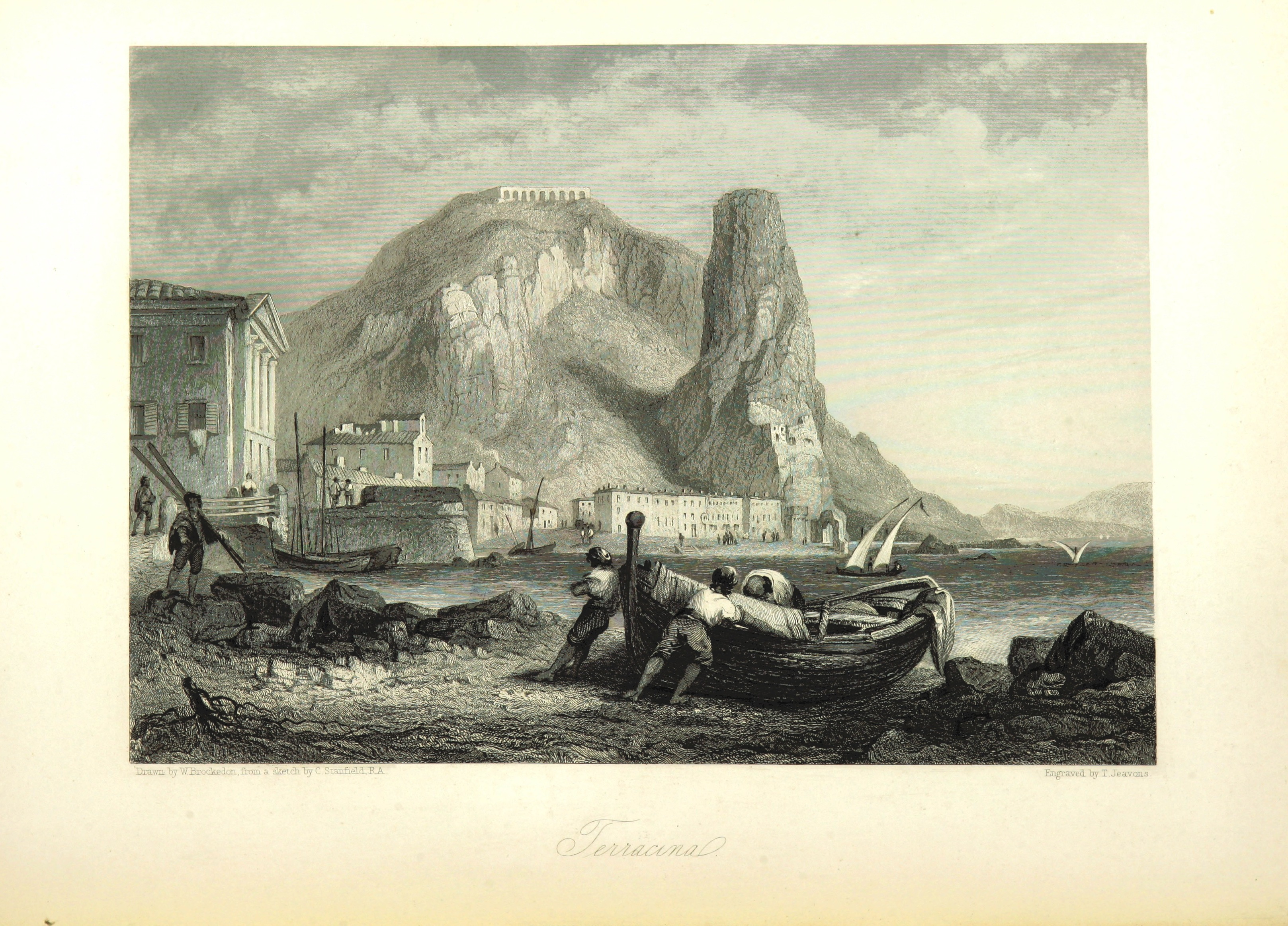 Image taken from: Title: "Italy, illustrated and described, in a series of views from drawings by Stanfield, R.A., Roberts, R.A., Harding, Prout, Leitch, Brockedon, Barnard, &c. &c. With descriptions of the scenes. And an introductory essay. on the political, religious, and moral state of Italy. By Camillo Mapei [translated by David Dundas Scott] ... And a sketch of the history and progress of Italy during the last fifteen years, 1847-62, in continuation of Dr. Mapei's essay. By the Rev. Gavin Carlyle", "Appendix. Travels, etc" Contributor: BROCKEDON, William. Contributor: SCOTT, David Dundas. Contributor: Stanfield, Clarkson Author: Italy Shelfmark: "British Library HMNTS 10151.f.6." Page: 432 Place of Publishing: London Date of Publishing: 1864 Publisher: Blackie & Son Issuance: monographic Identifier: 001828371 Rotated by Mac9